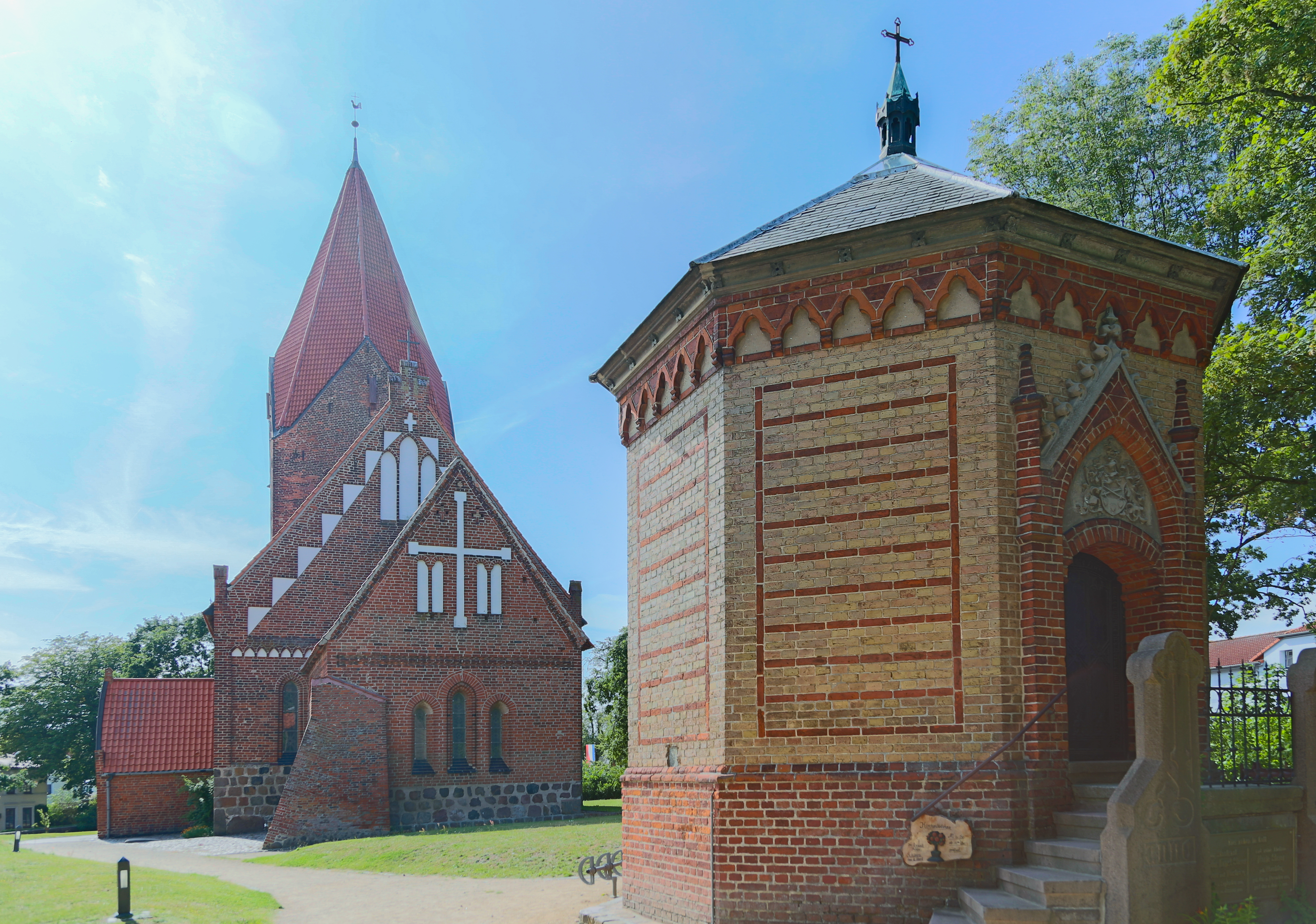 The Lutheran St John's Parish Church (Pfarrkirche St. Johannes) and the Stever Mausoleum (Mausoleum Stever) in Rerik, Landkreis Rostock, Mecklenburg-Vorpommern, Germany. Church, churchyard and mausoleum form a listed cultural heritage monument.